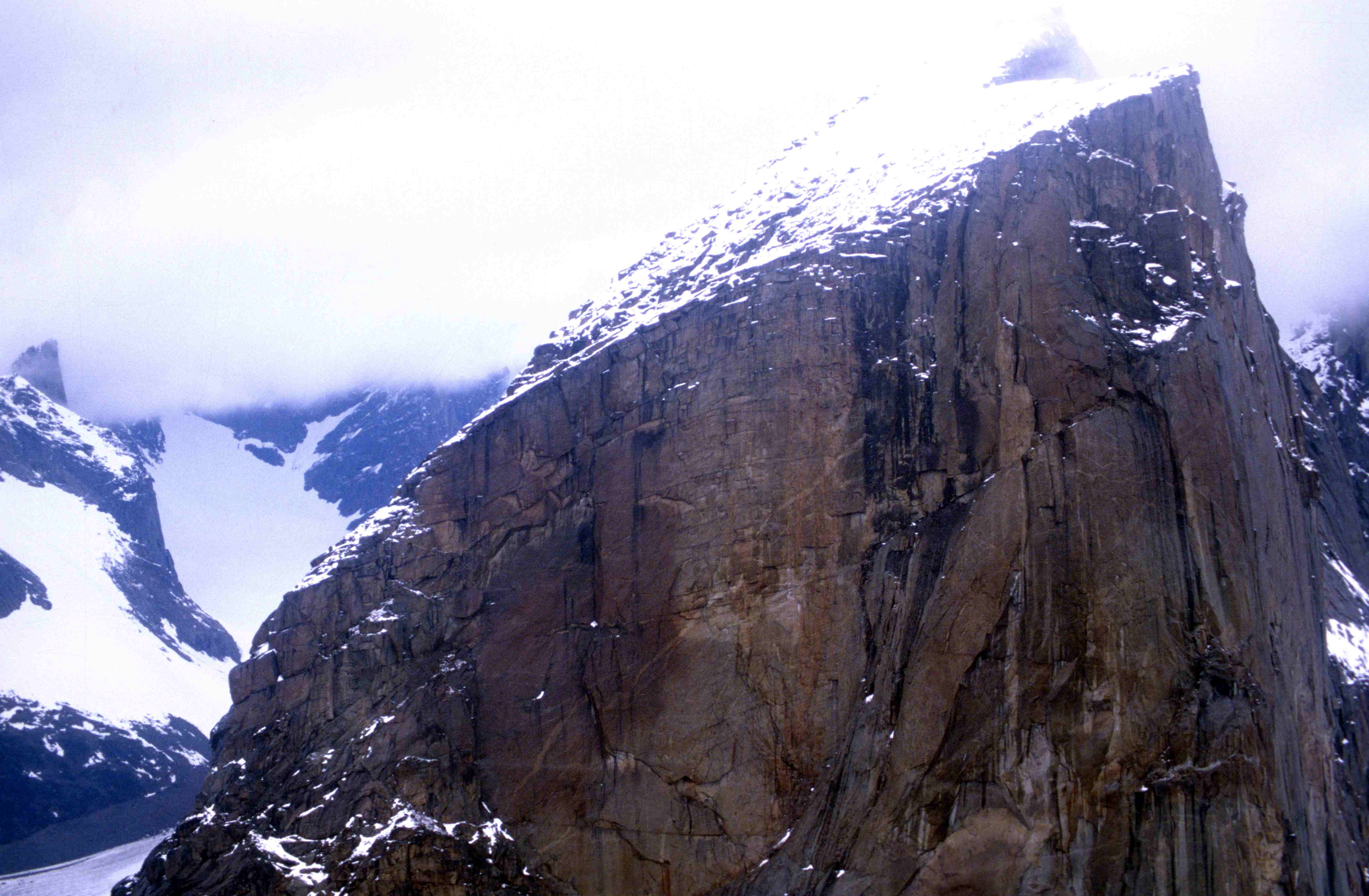 Auyuittuq National Park: Peak of Mount Thor above Weasel River